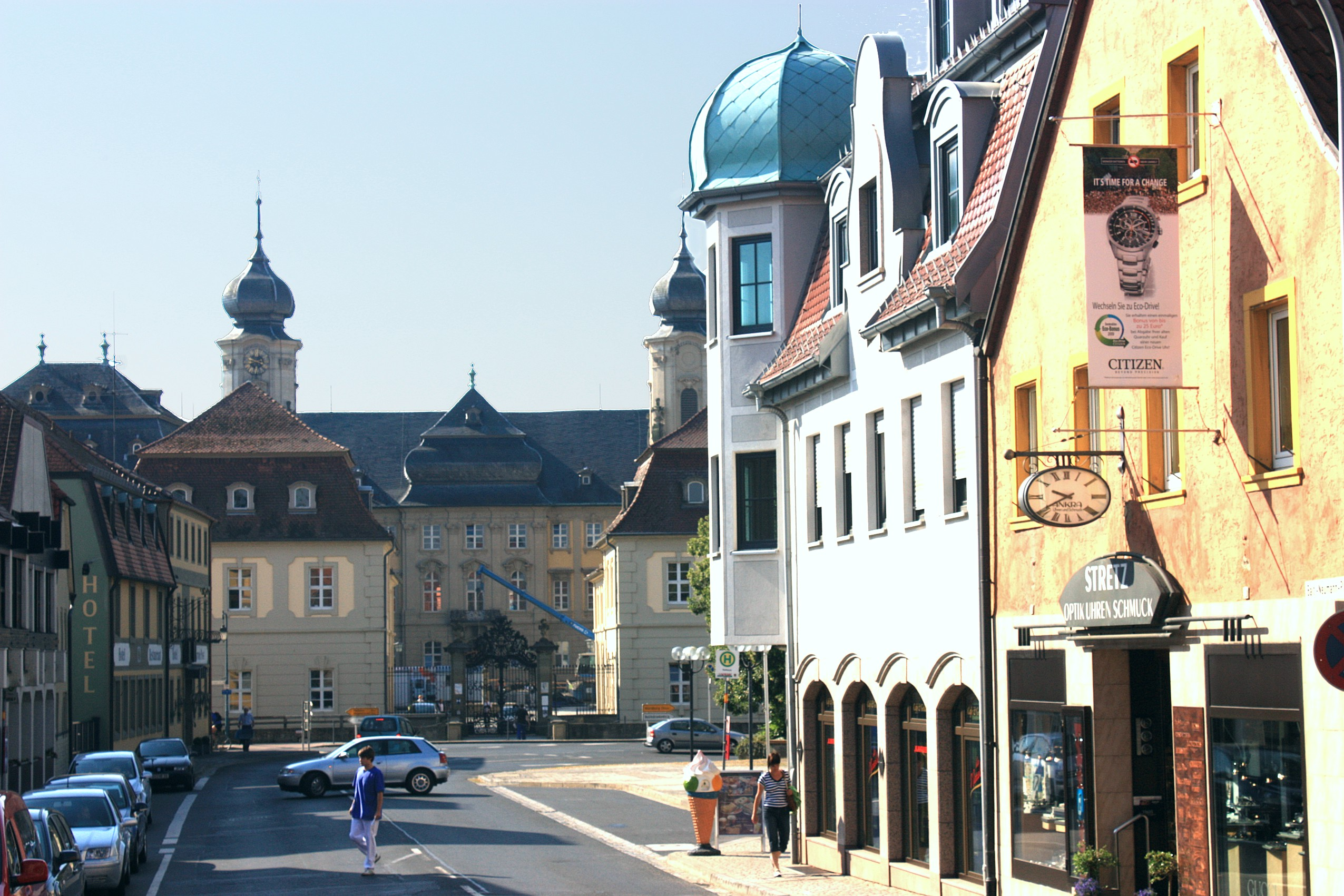 Werneck, view from the Schönbornstraße to the palace